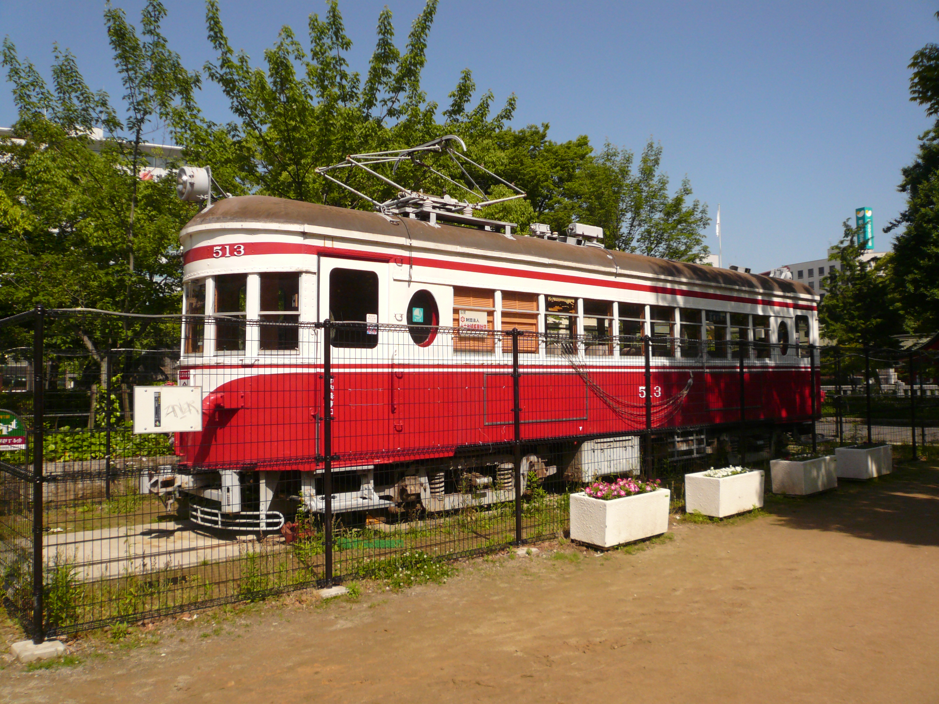 Kogane Park, Gifu, Gifu, Japan